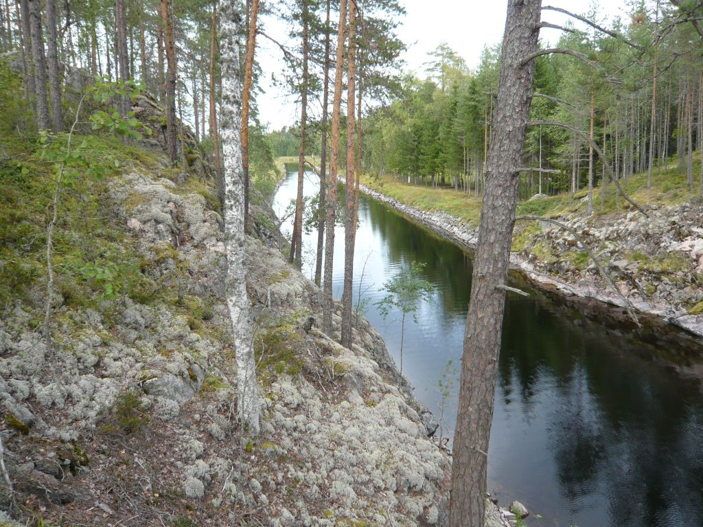 Kukonharju canal on the border of Puumala and Ruokolahti. It is one of the four Suvorov military canals that are the oldest canals in Finland. Photo taken a cliff on the southern part of the canal facing north.